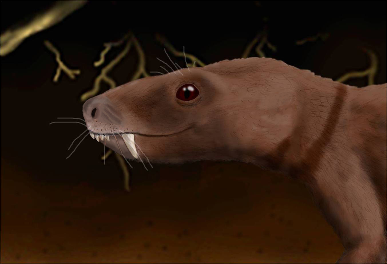 Life restoration of Trirachodon berryi.